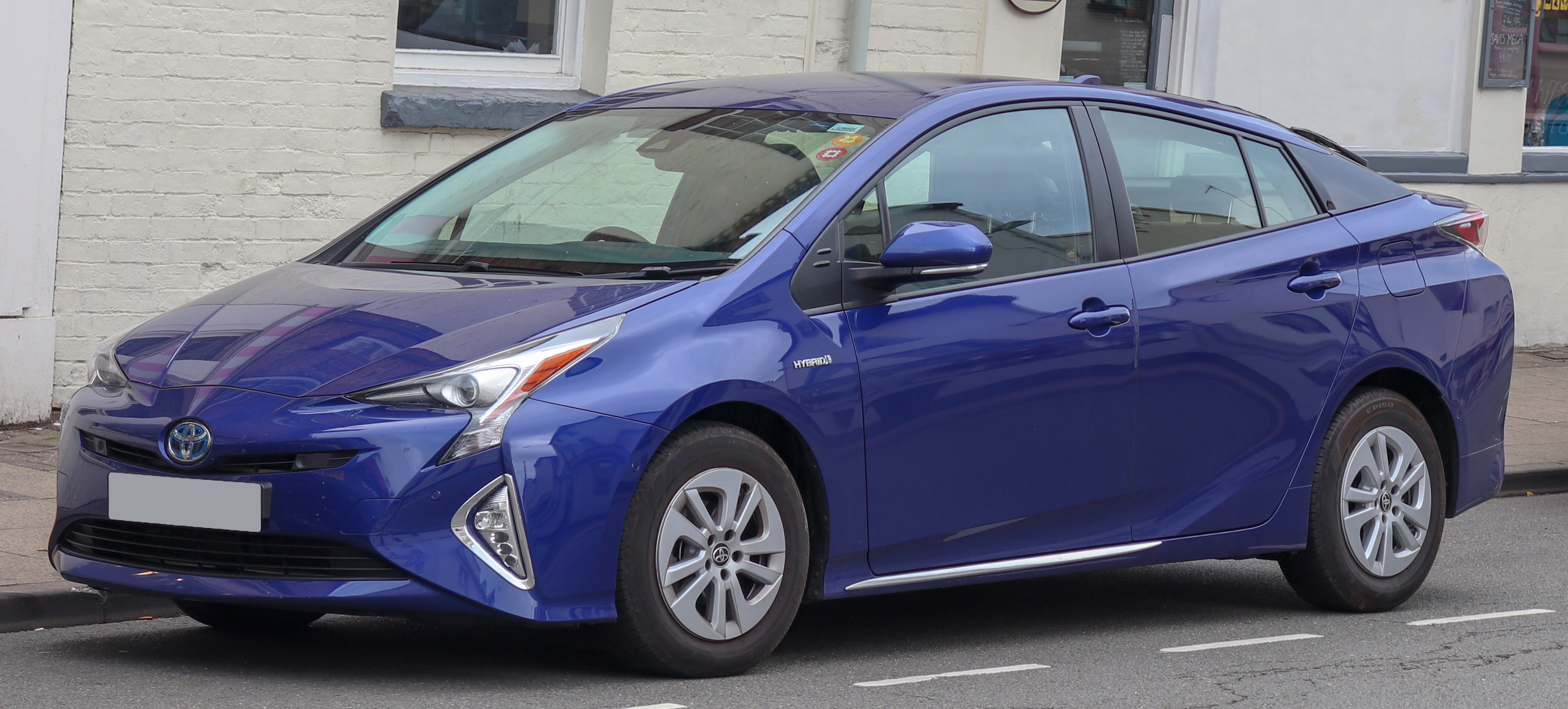 2018 Toyota Prius Excel VVT-i CVT 1.8 Taken in Leamington Spa